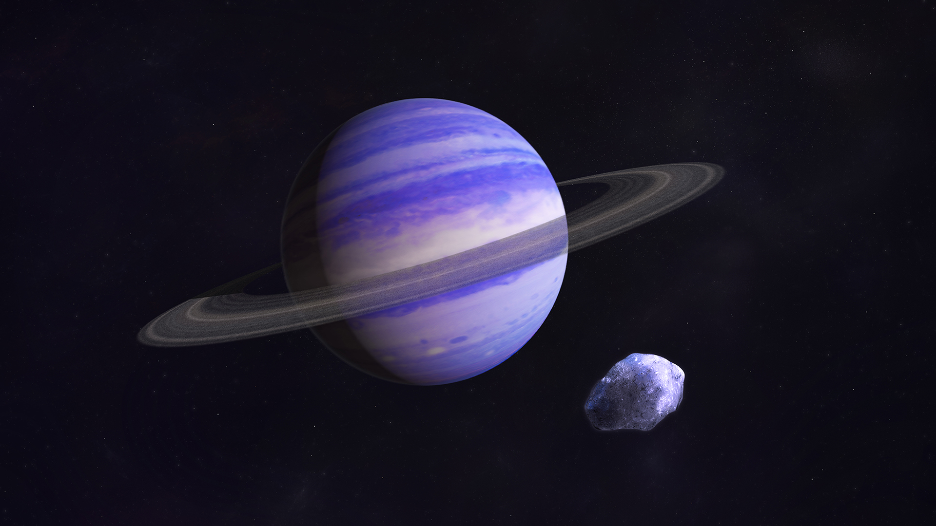 Artist's impression of a Neptune-like exoplanet. Used to illustrate Gliese 15 Ac here.